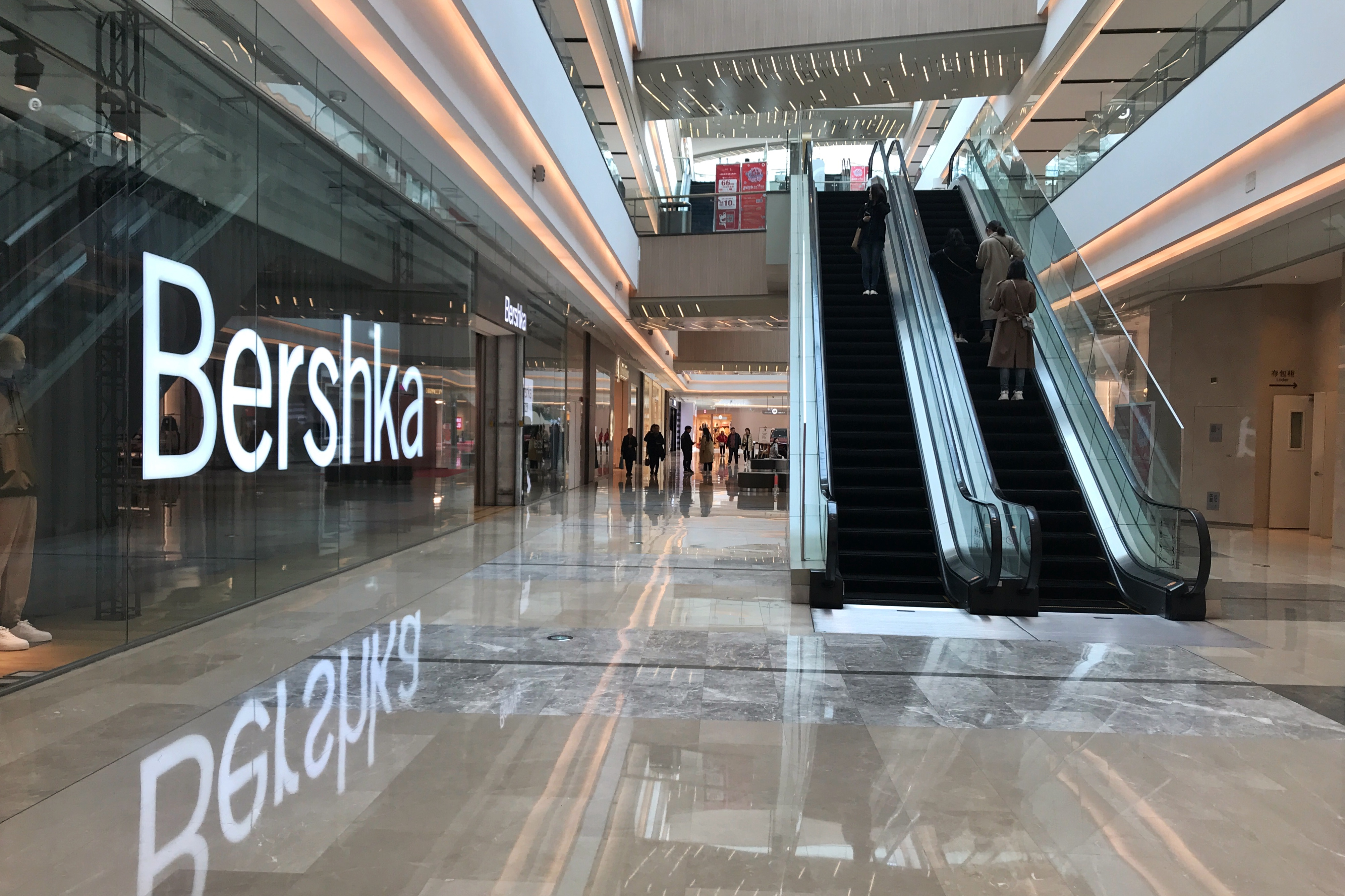 Interior of CityOn Zhengzhou